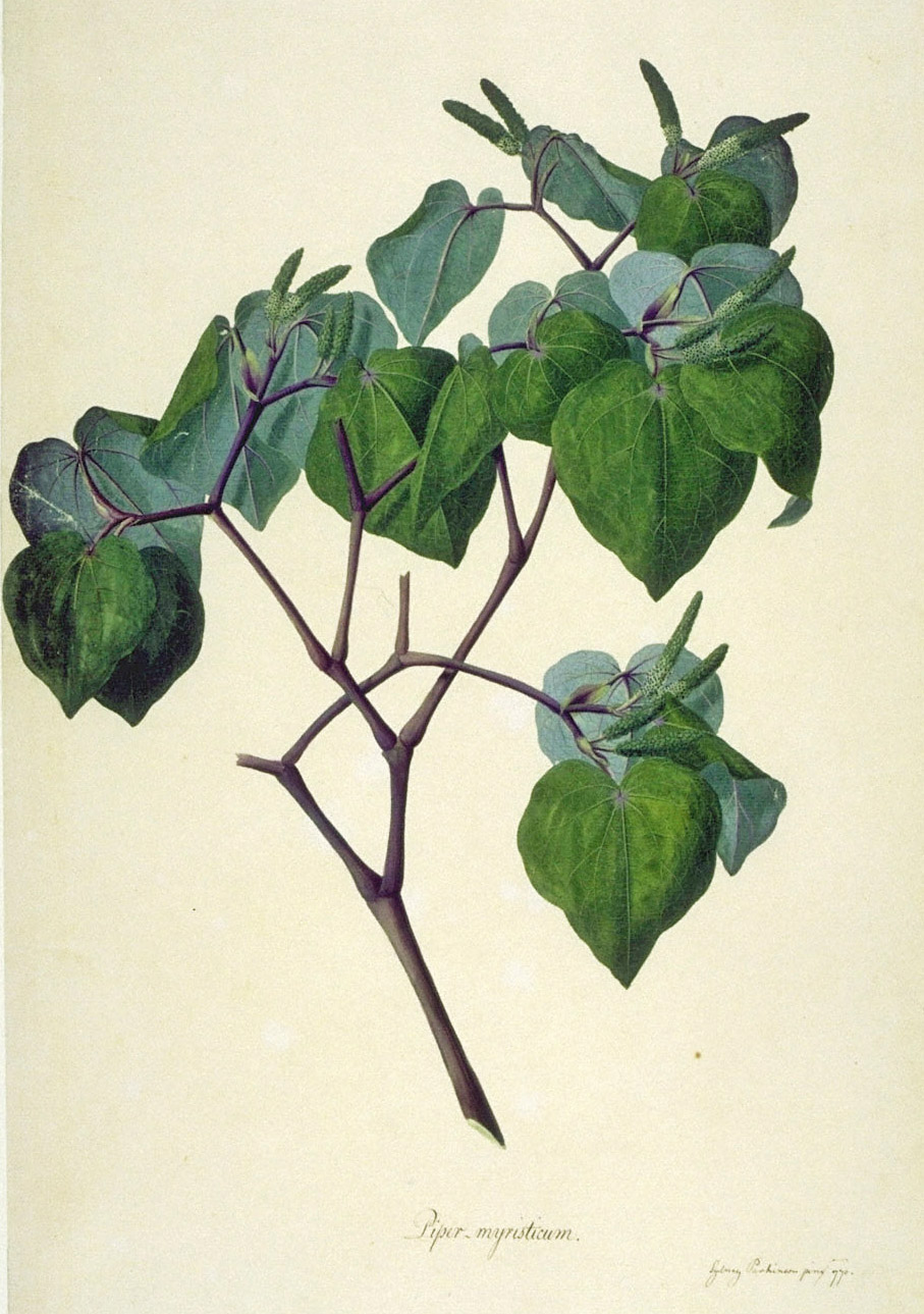 Macropiper excelsum, Common name:Kawakawa. New Zealand. Piperaceae.